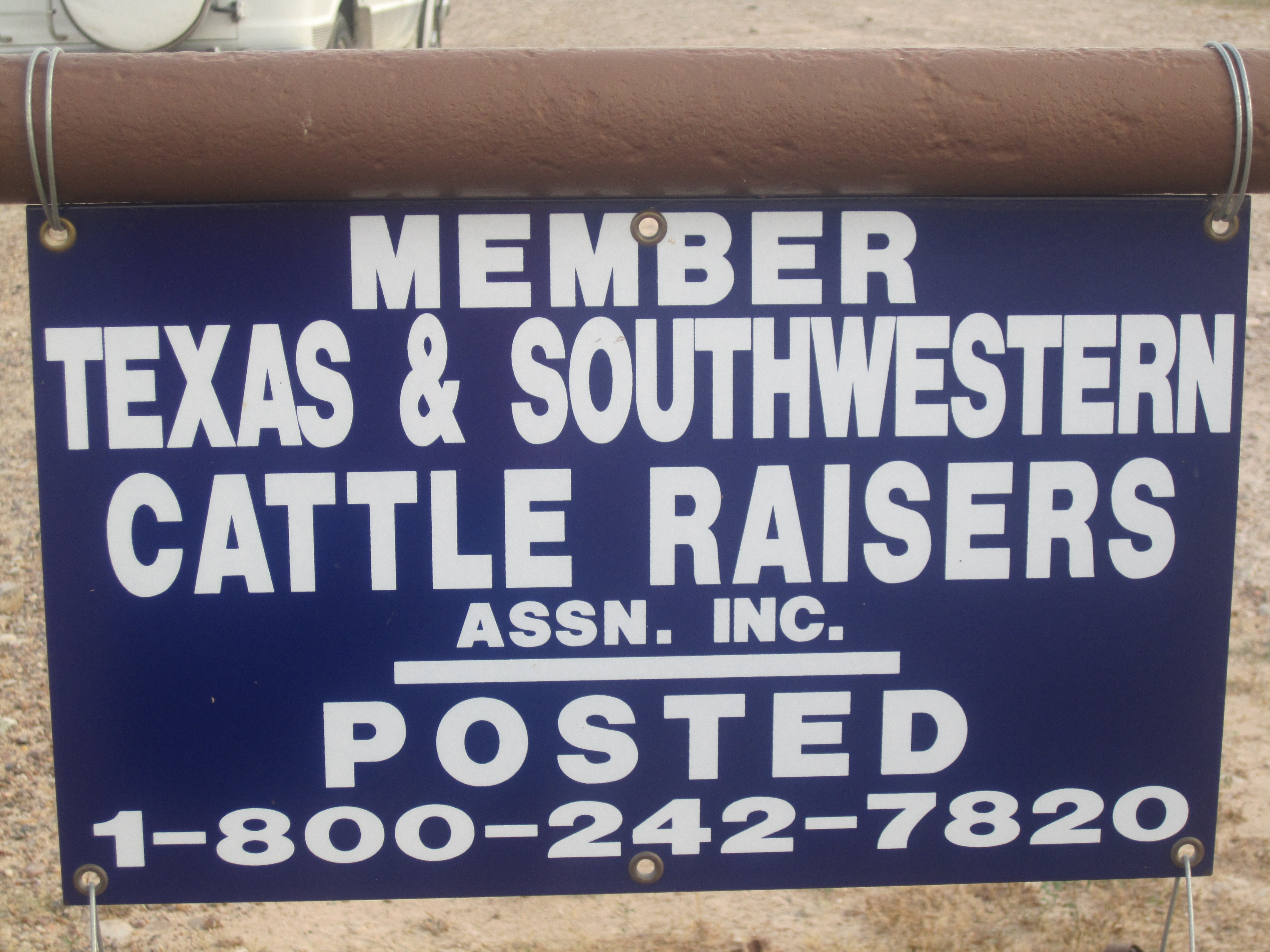 I took photo with Canon camera of Texas and Southwestern Cattle Raisers Assn. sign in Webb County, TX.